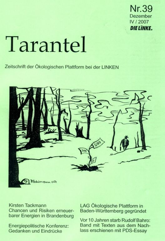 "tarantel" the newspaper of the "Ökologische Plattform" (Ecological Platform)